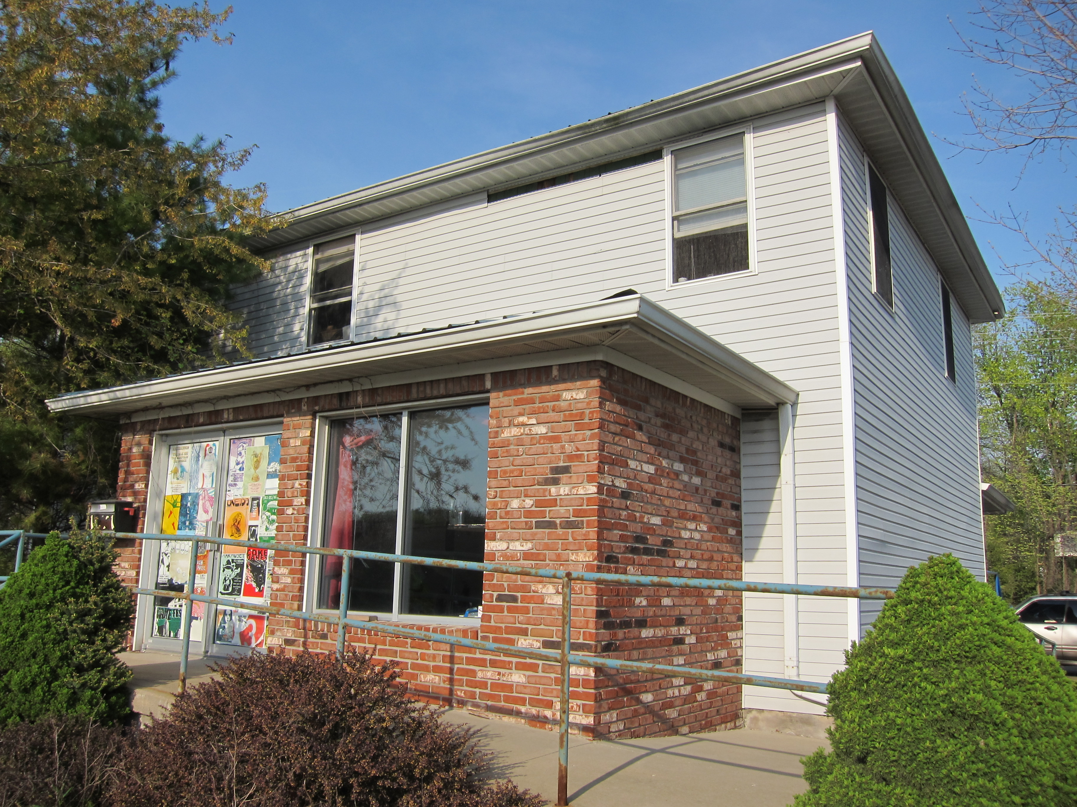 where we played in bloomington IN